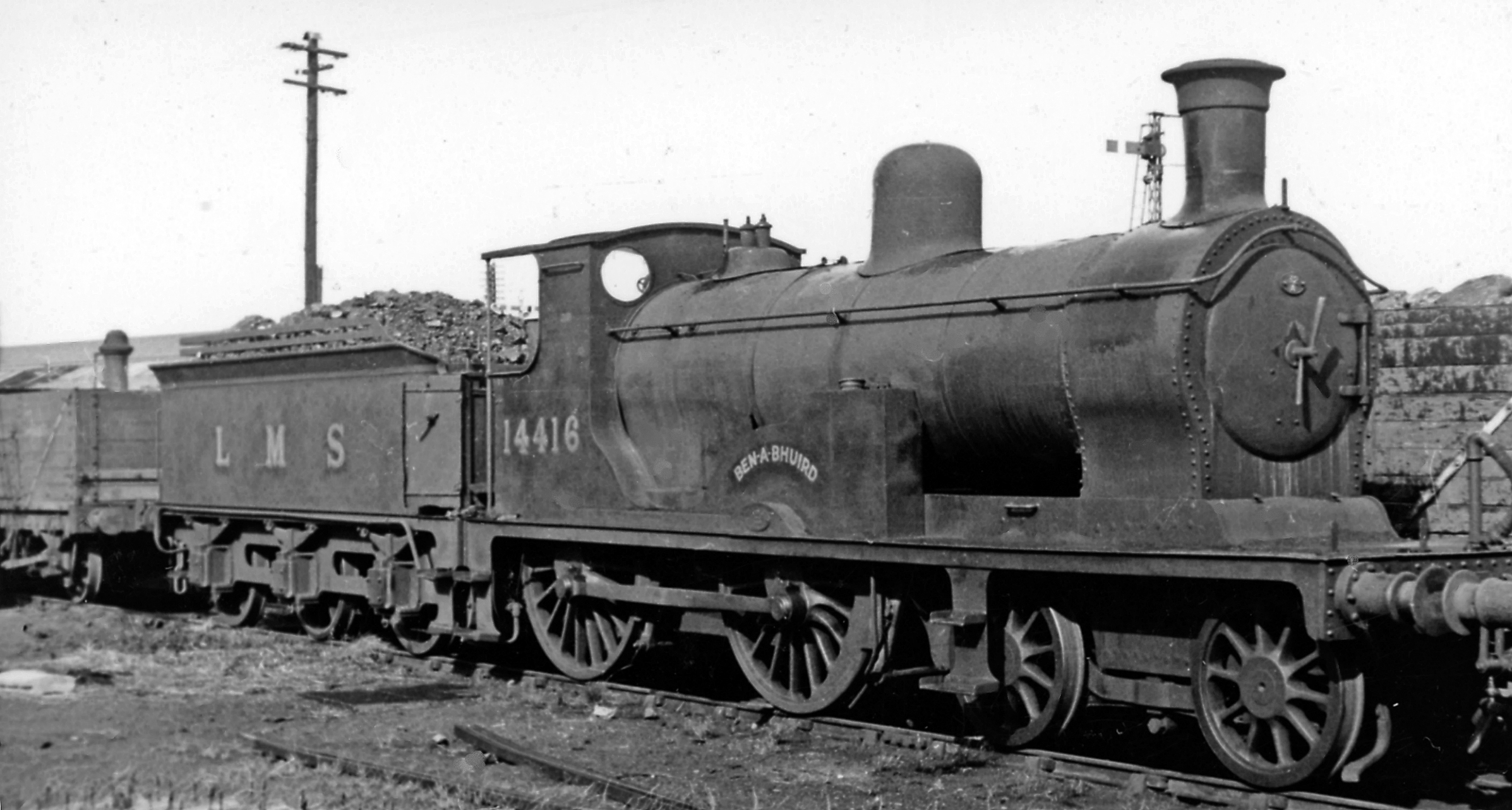 Highland Railway 'Ben' 4-4-0 at Inverness Locomotive Depot. No. 14416 'Ben A'Bhuird', a Drummond 2P 4-4-0 of 1898, was withdrawn in 9/48, so was probably out of use here when photographed.